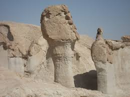 THIS IS A FAMOUS HISTORIC PLACE IN SAUDI ARABIA IN AL HASA